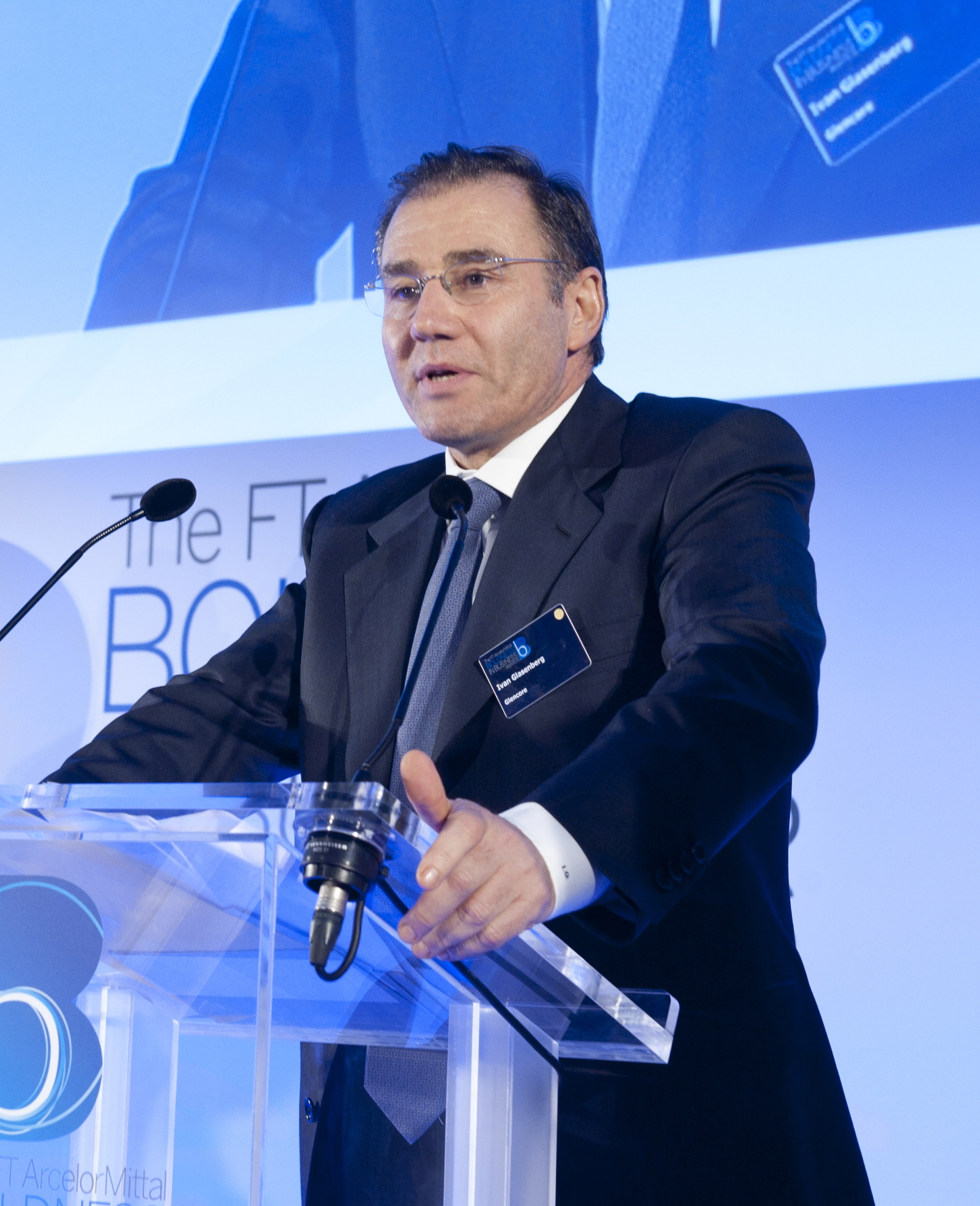 Ivan Glasenberg at FT ArcelorMittal Boldness in Business Awards 2013